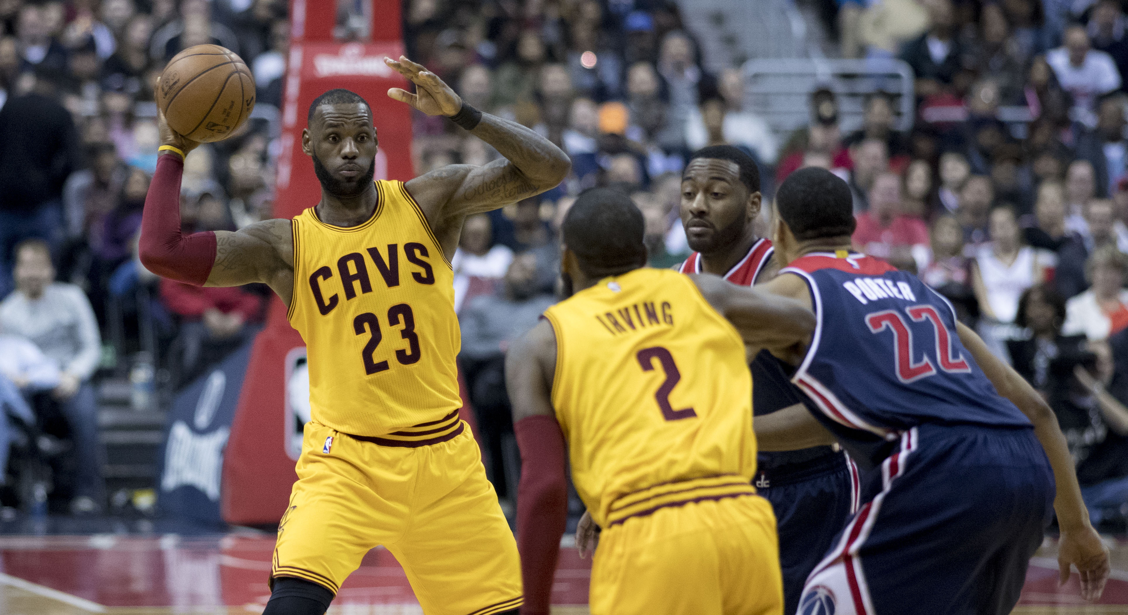 Cavaliers at Wizards 2/6/17